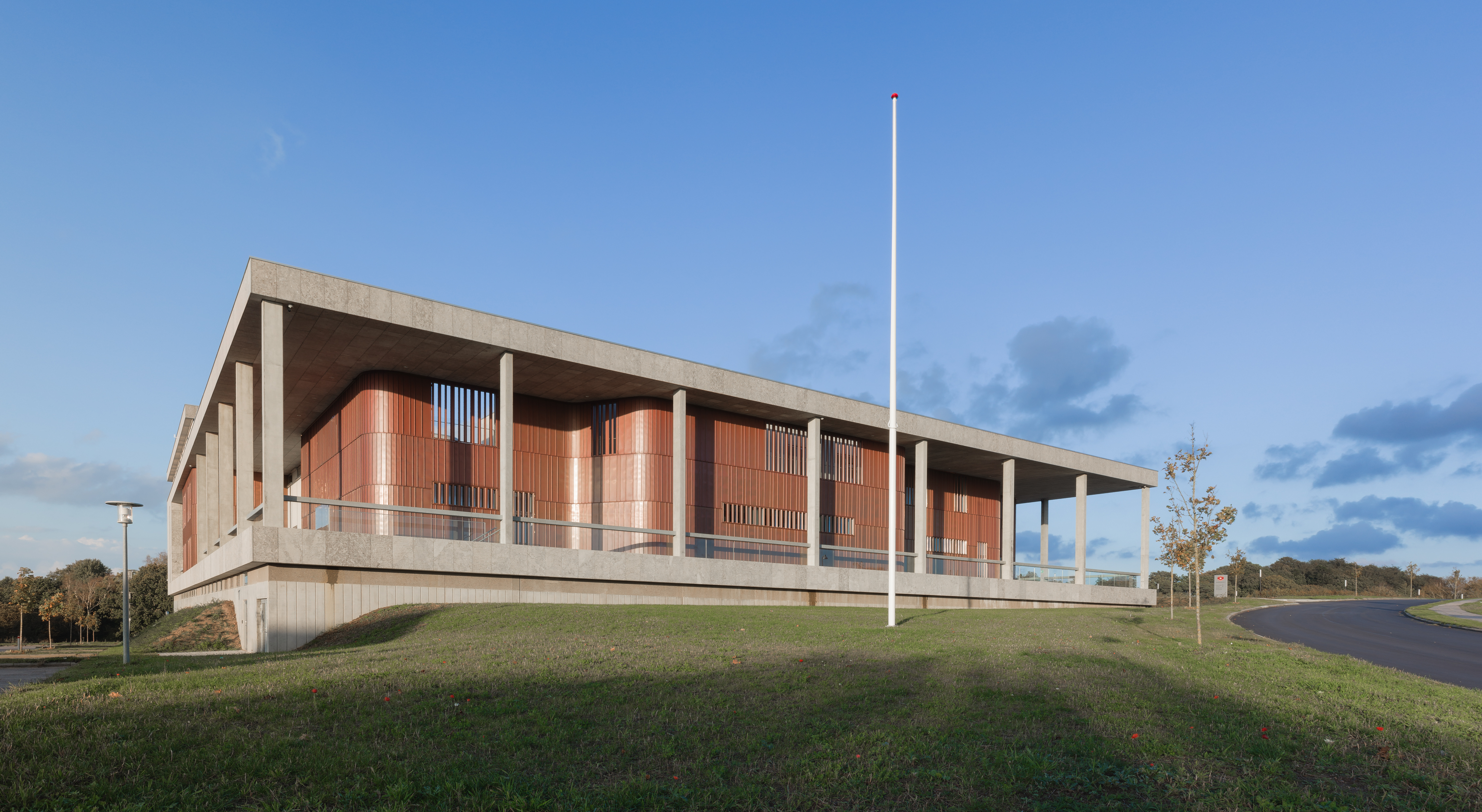 Vestre Landsret, Viborg, Denmark in evening sun. Stitch of a single row of 5 images taken in portrait mode each of three different exposures separated by 2 EV. Exported as 16-bit tif to PTGui Pro and HDR Tone-map stitched there. Exported as tiff for final crop and minor adjustments in Light Room 5.